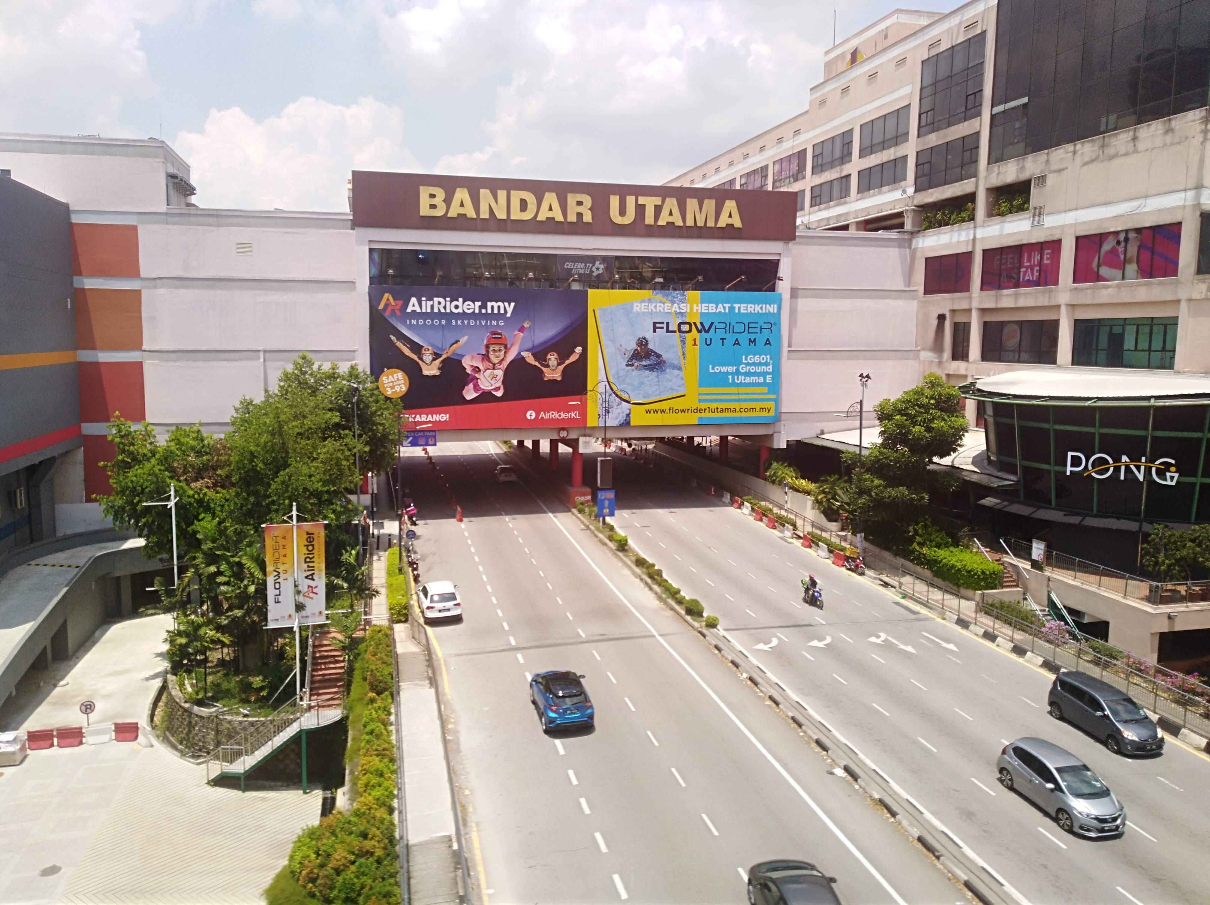 Taken along the Sungai Buloh–Kajang line.